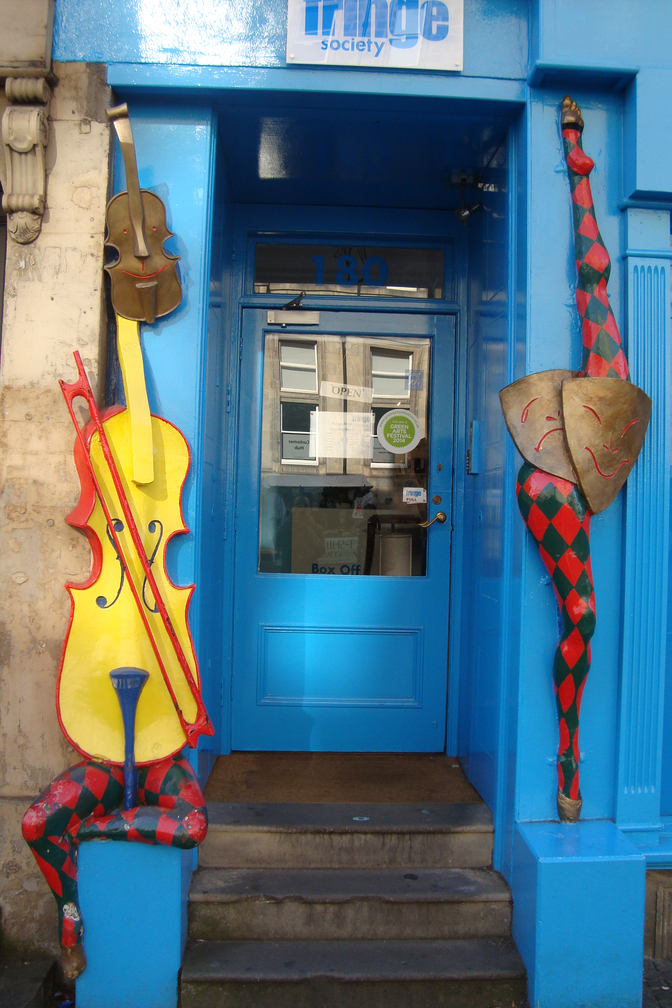 Edinburgh, 174 - 180 High Street Wikidata has entry Q17809291 with data related to this item.